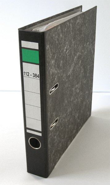 A lever arch file or ring binder, commonly used in offices.